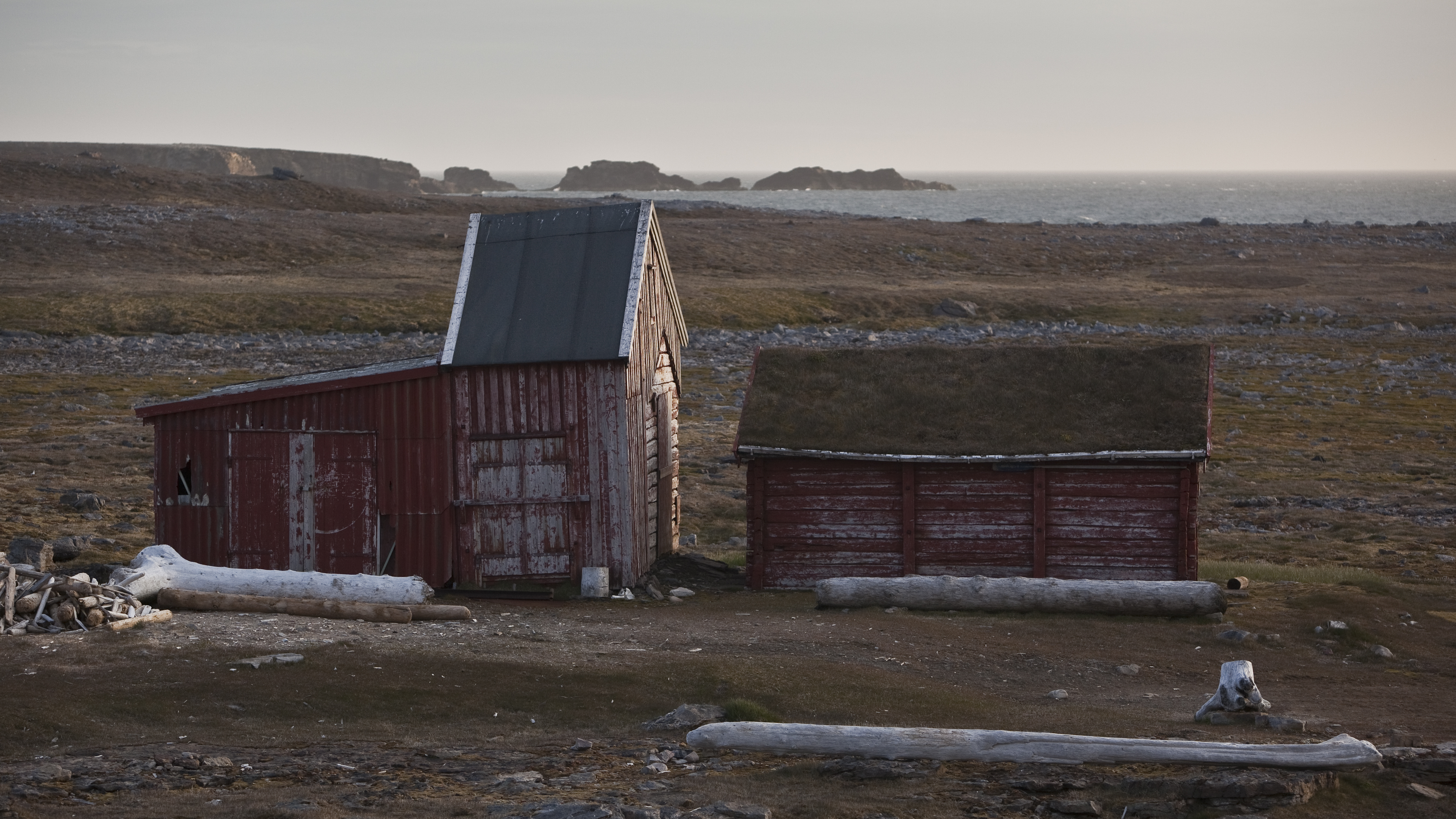 Tobiesen house (left) and Hammerfest cabin at Bear Island. Hammerfest cabin is Svalbard's oldest complete building